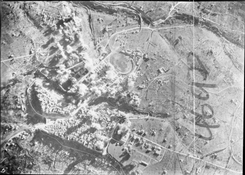 Aerial Operations of the Royal Air Force in Italy, November 1943 Bombs from aircraft of the Tactical Bomber Force showering roads and defended positions at Lanciano, Italy in support of the 8th Army Sangro River bridgehead.